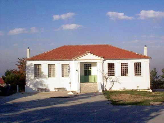 Outside View, image from the Folklore Collection, Vavdos, Central Macedonia, Greece